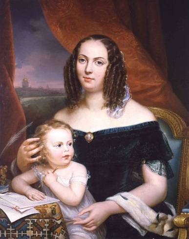 Louise Colet and her daughter, Henriette